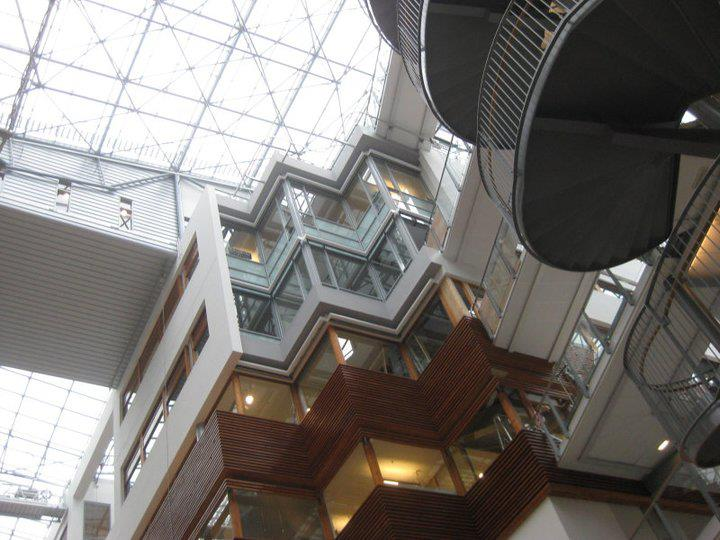 BI Oslo